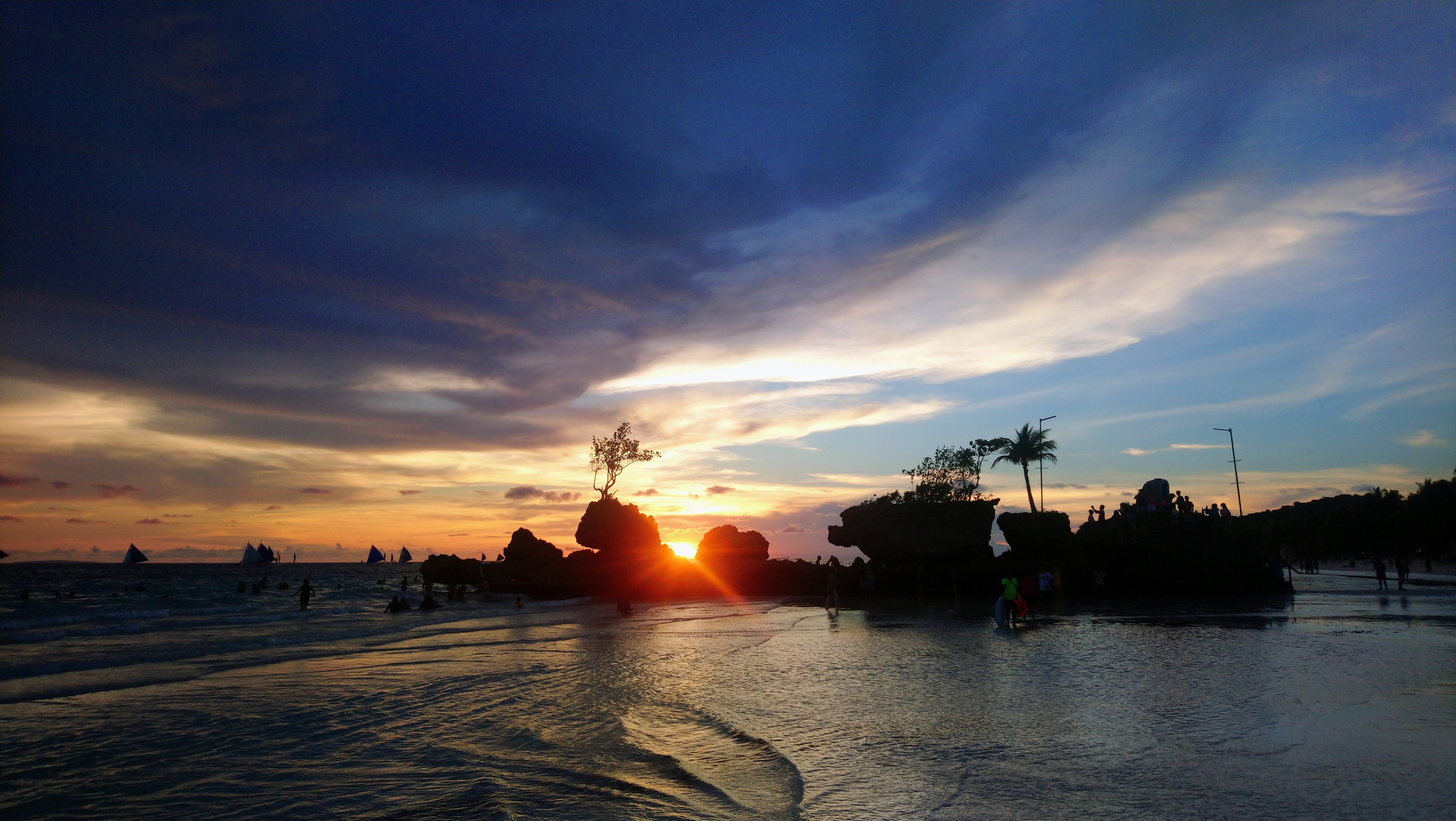 Sunset Boracay's Rock Willy's Beach Resort Philippines